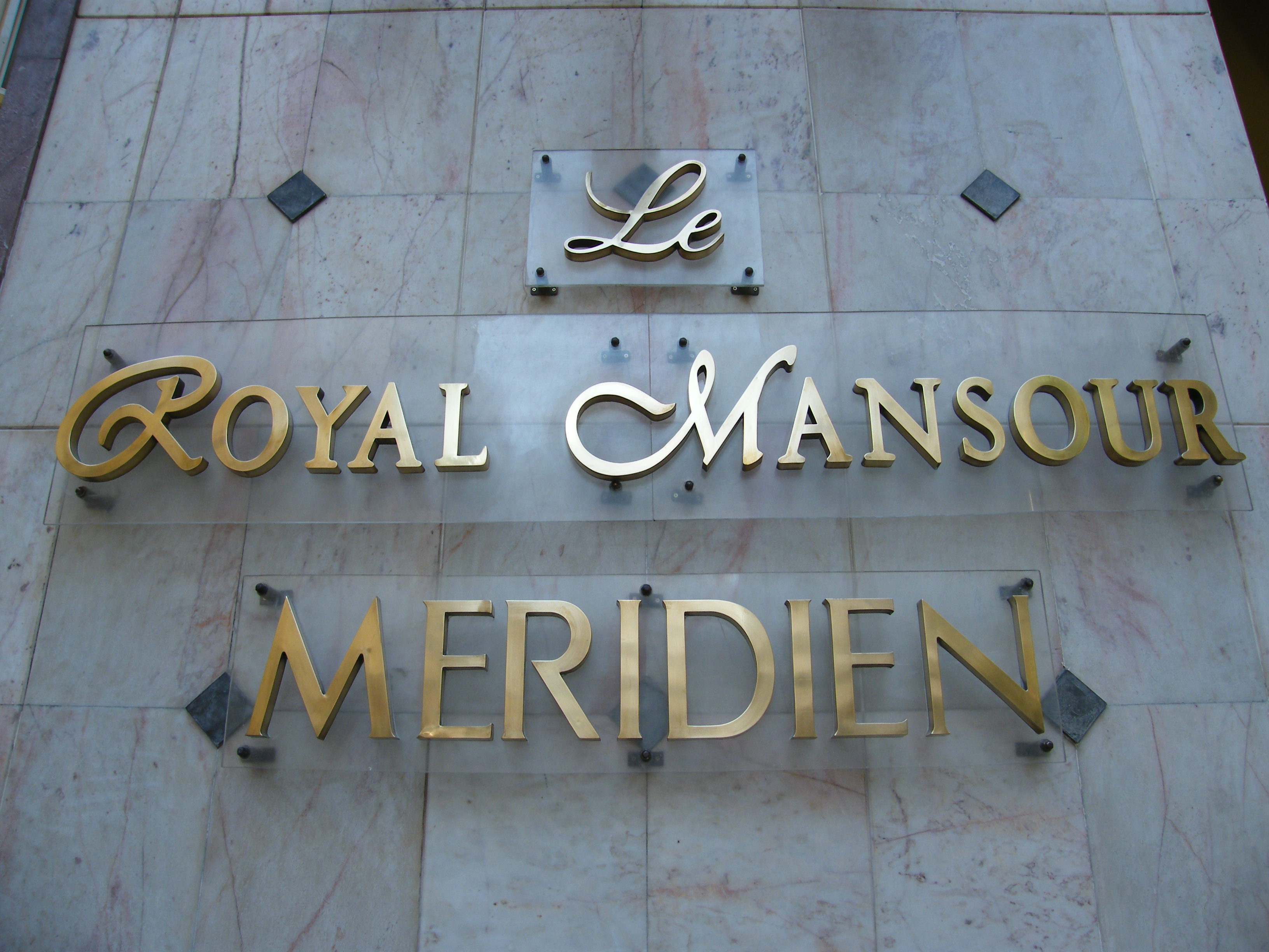 Le Royal Mansour Meridien hotel, Casablanca